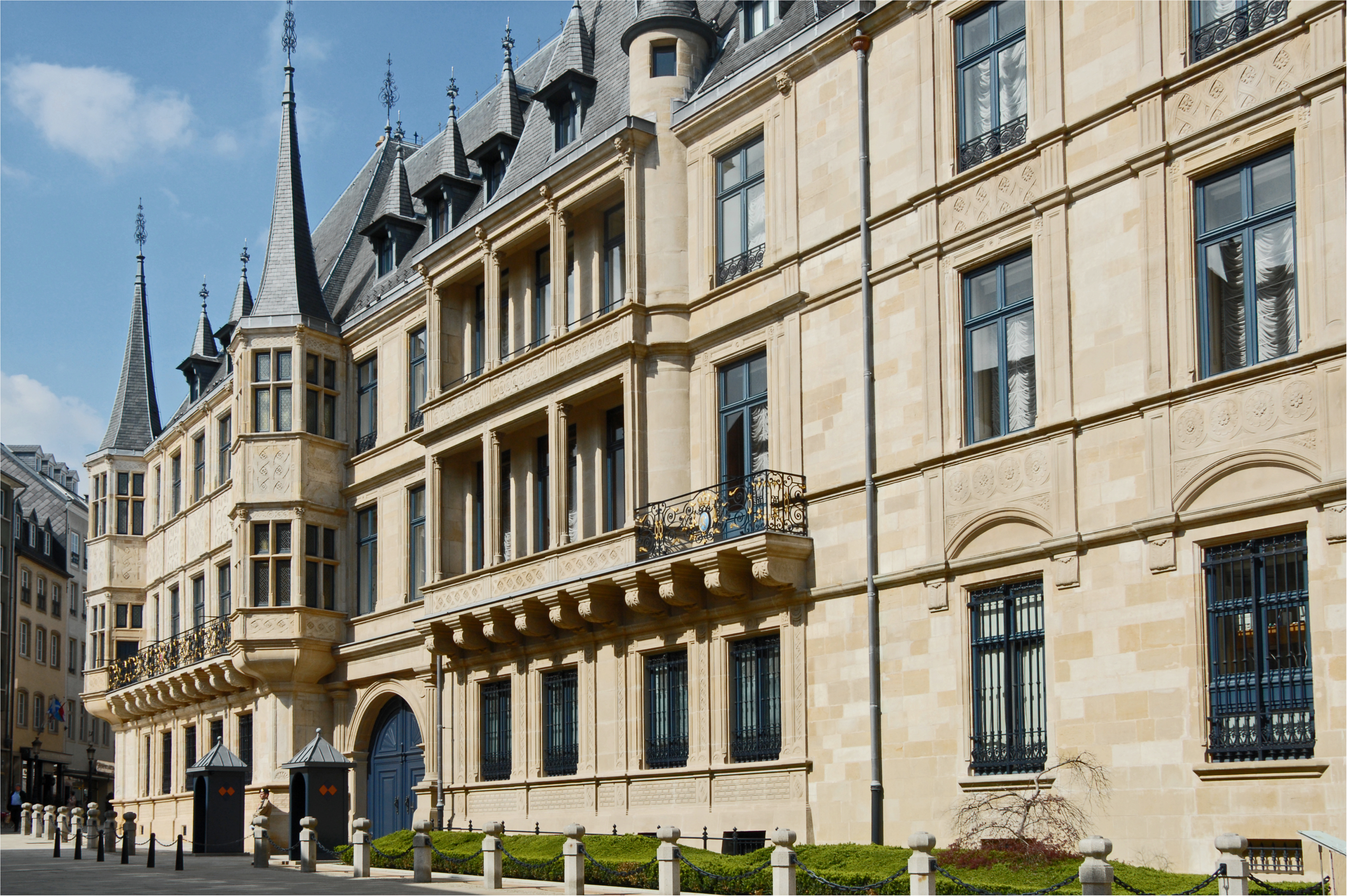 Grand Ducal Palace in Luxembourg city. At the right: part of the Parliament building (Chambre des députés)